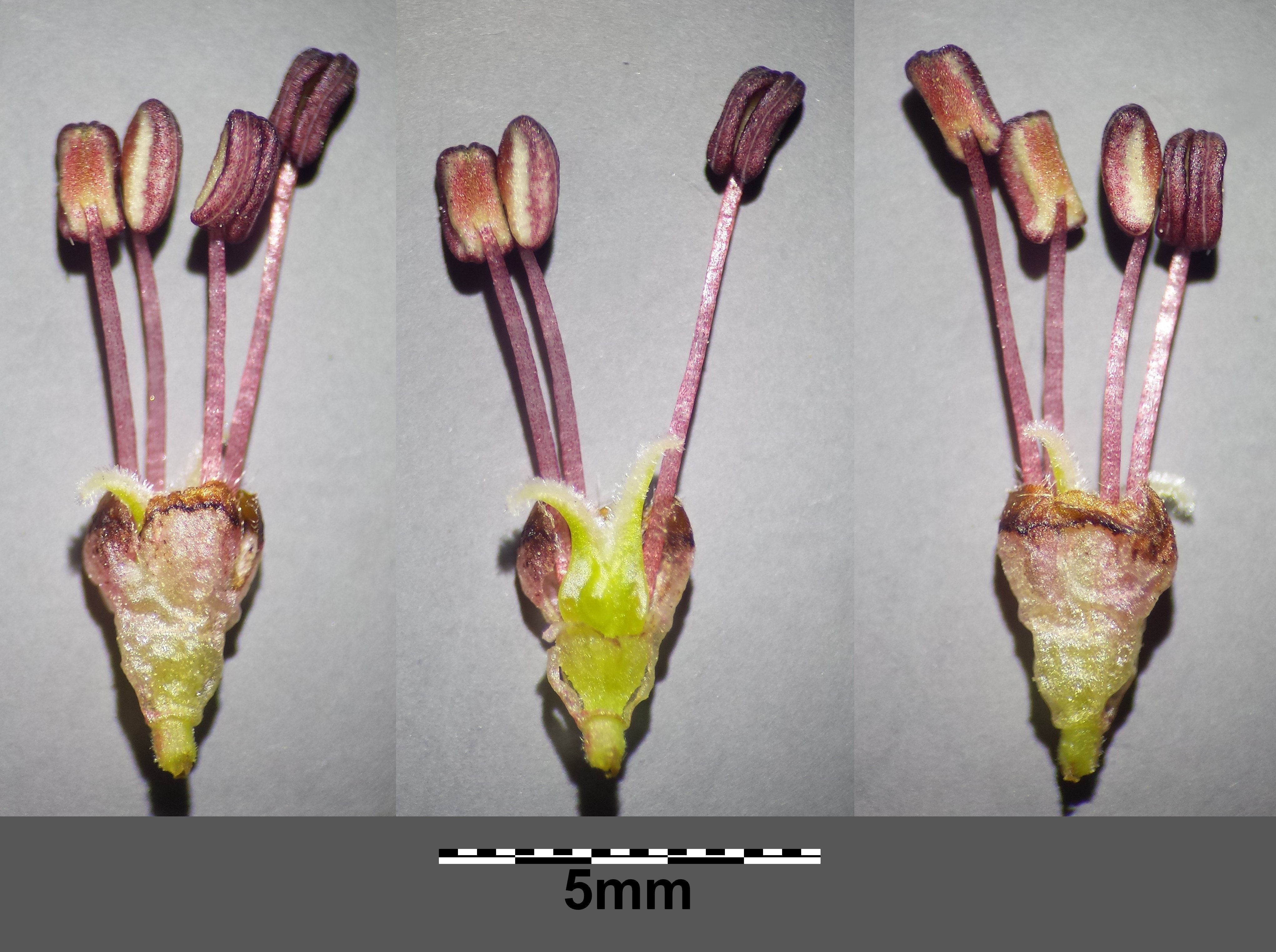 Flower Taxonym: Ulmus minor (subsp. minor) ss Fischer et al. EfÖLS 2008 ISBN 978-3-85474-187-9 Location: Steinberg near Niederhollabrunn, district Korneuburg, Lower Austria - ca. 370 m a.s.l. Habitat: shrubbery